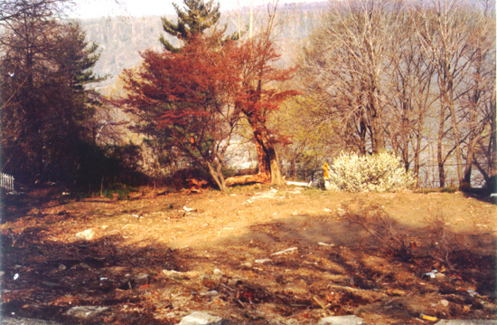 Demolition site of former Edwin H. Armstrong House